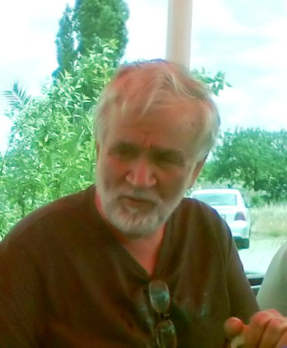 Lubomir Levchev